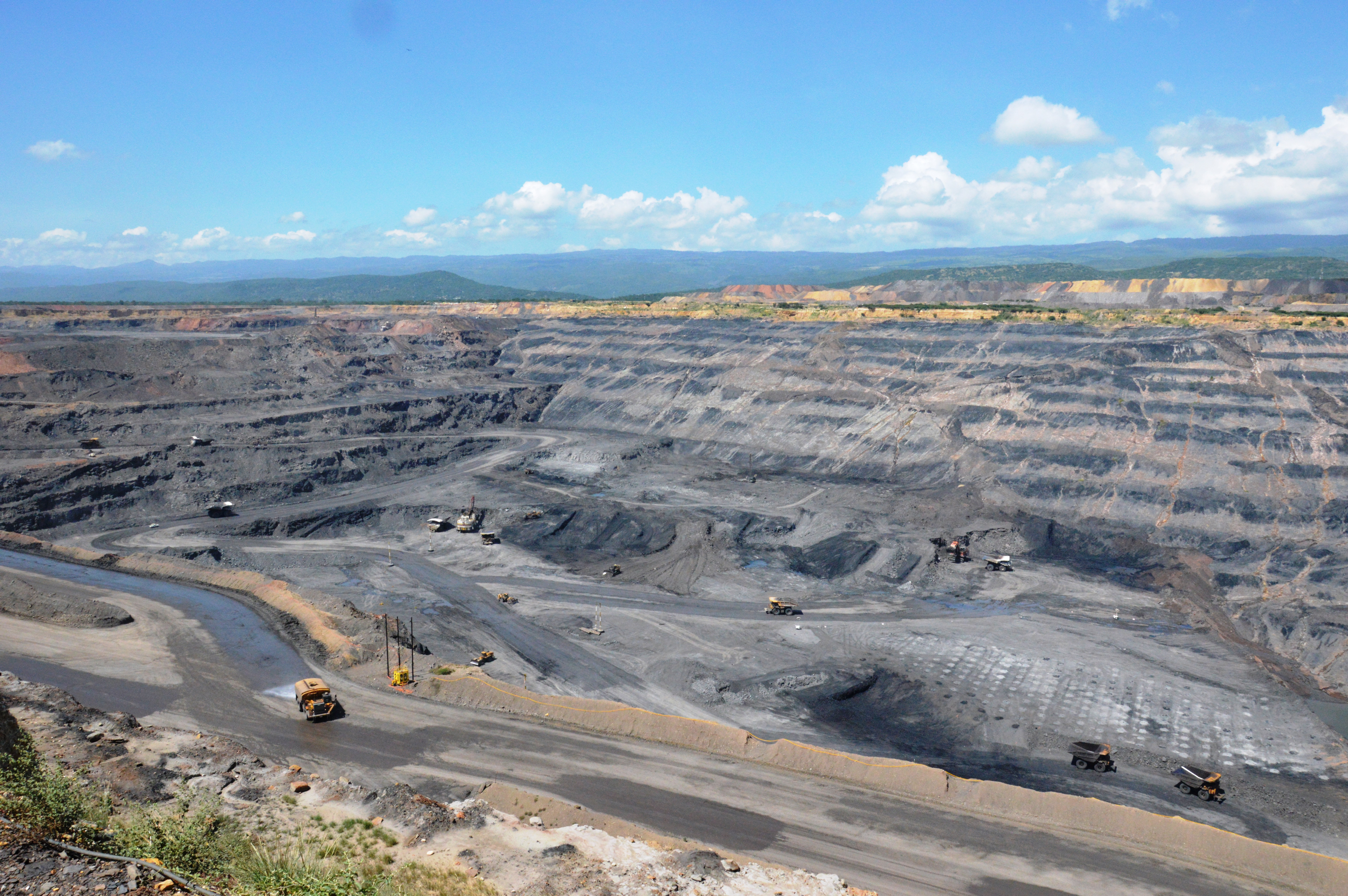 In the foreground the Patilla pit can be seen. Behind it not usable sediments are deposited.